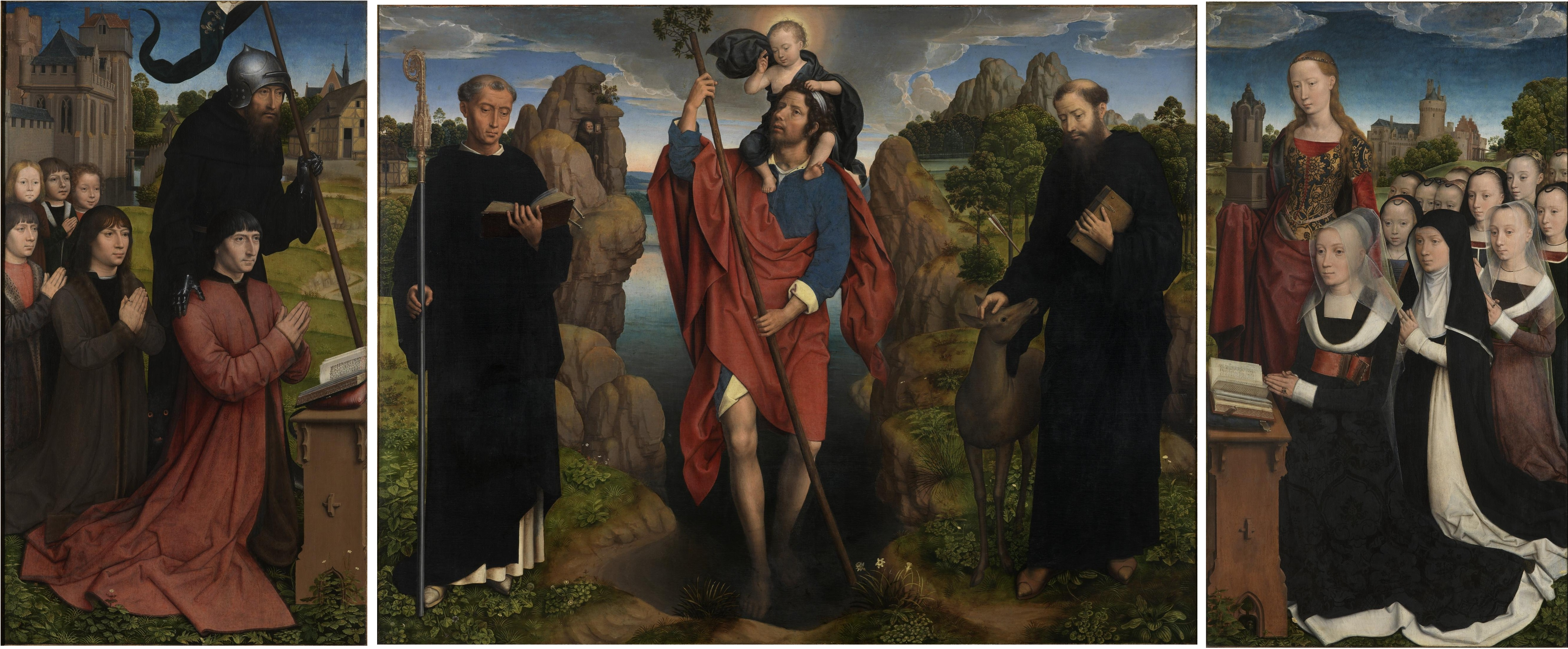 Altarpiece for the altar of Saints Maurus and Giles in the Church of Saint James in Bruges